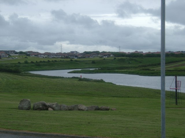 River Ugie. Photo taken at high tide